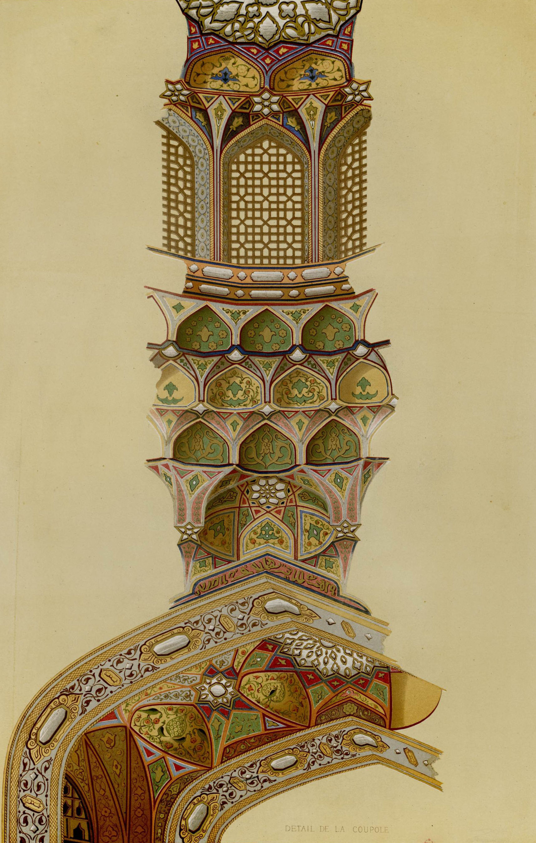 Pavillon of Eight Paradise (Hasht Behesht), Detail of the dome